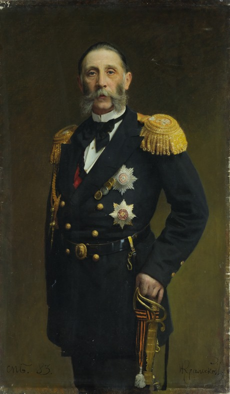 Samuil Alekseyevich Greyg (by Kramskoy)